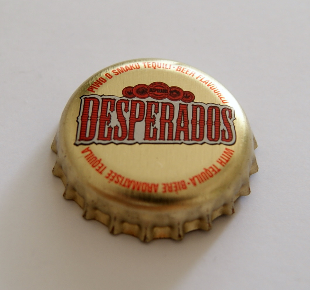 Polish Desperados Cap